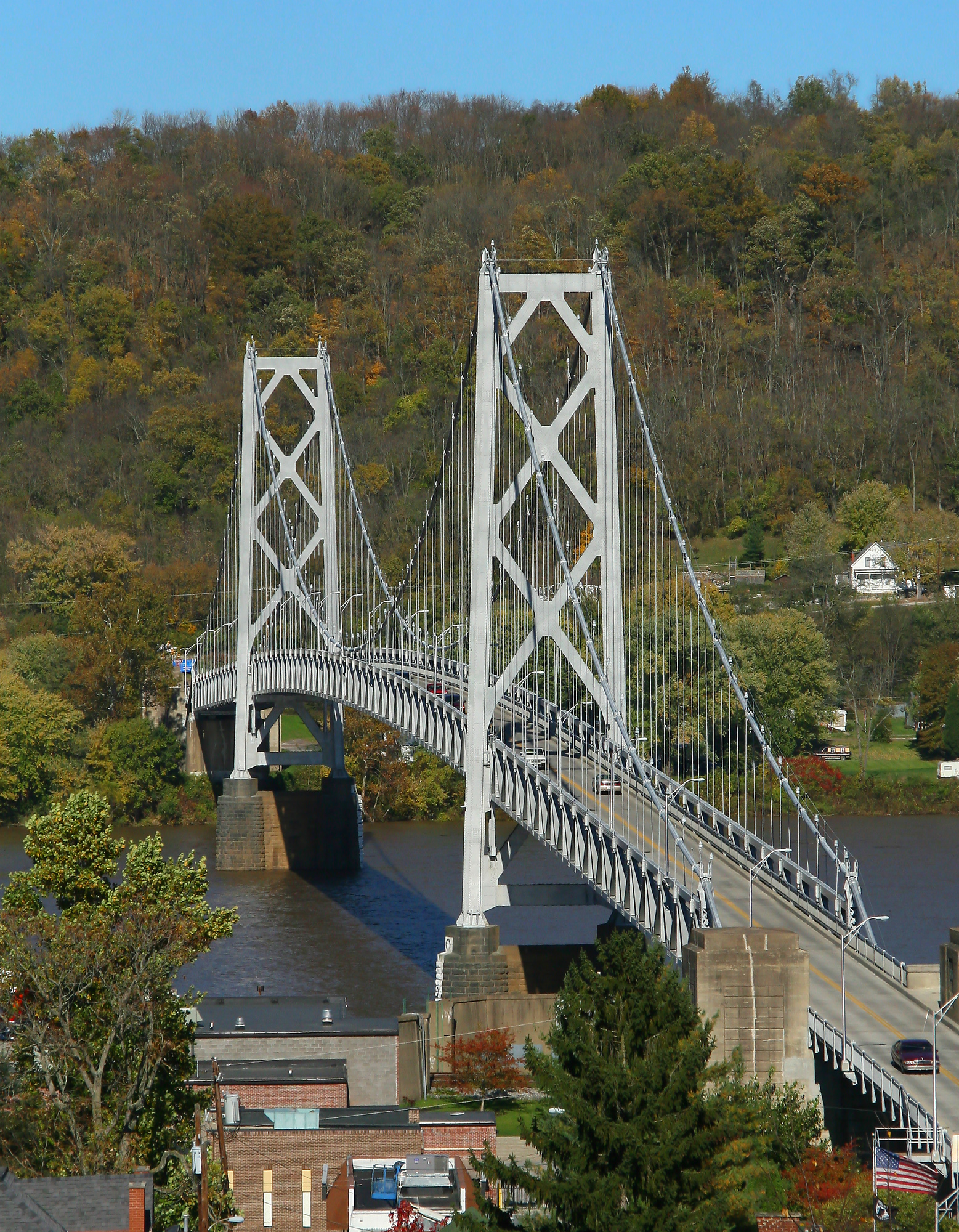 Simon Kenton Bridge connects Kentucky and Ohio over the Ohio River. This photo was taken 10/29/2006 by Greg Hume with a Canon 30D.